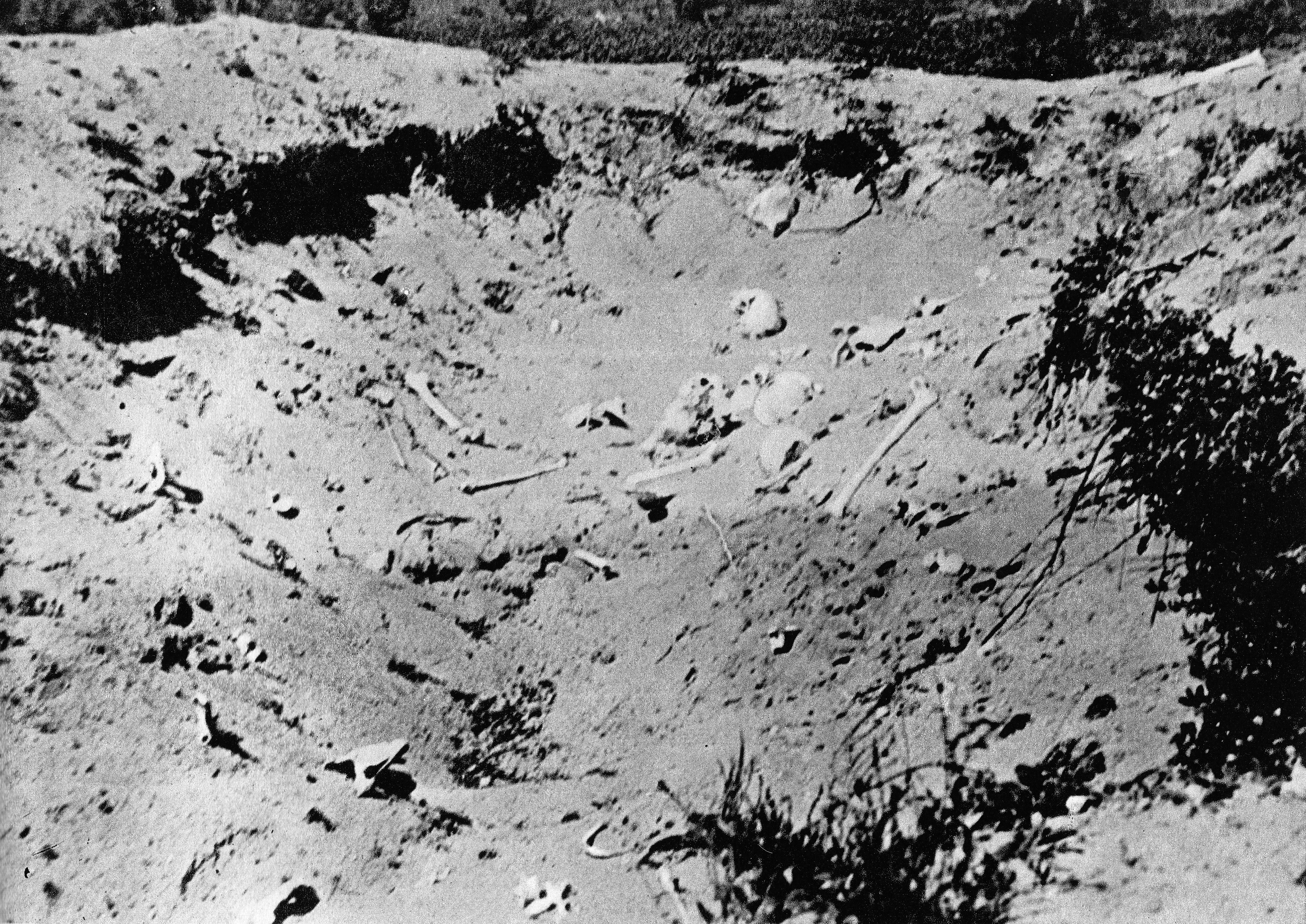 Former death camp at Treblinka in the summer of 1945